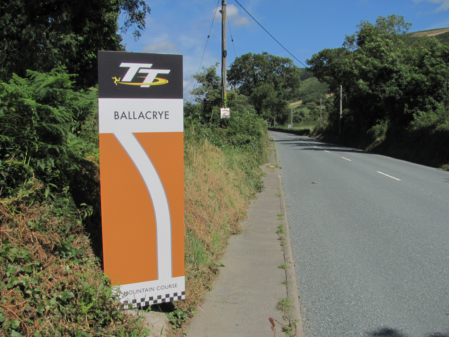 Ballacyre Corner